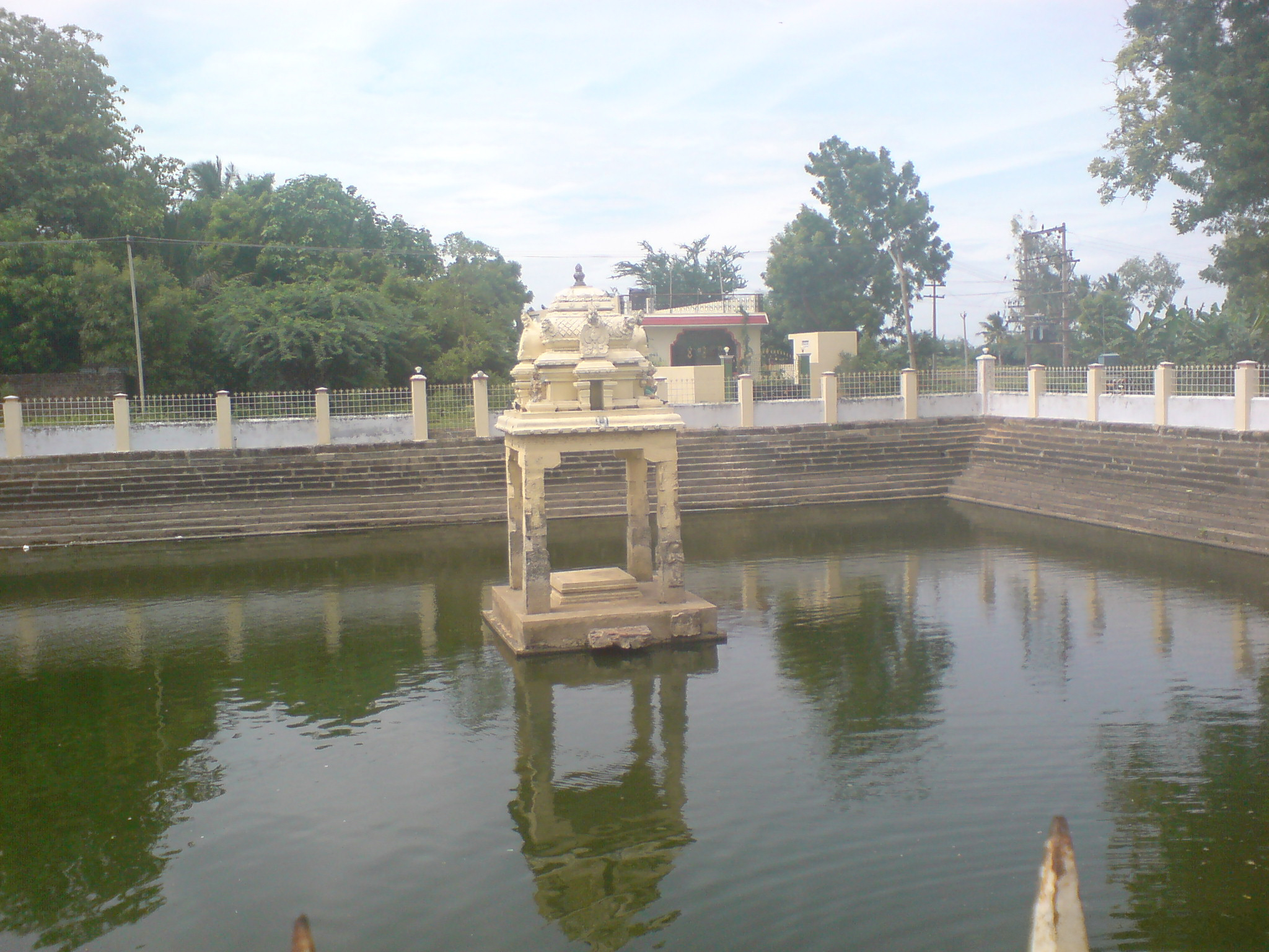 Kanchipuram Temple, Tiruputkuzhi